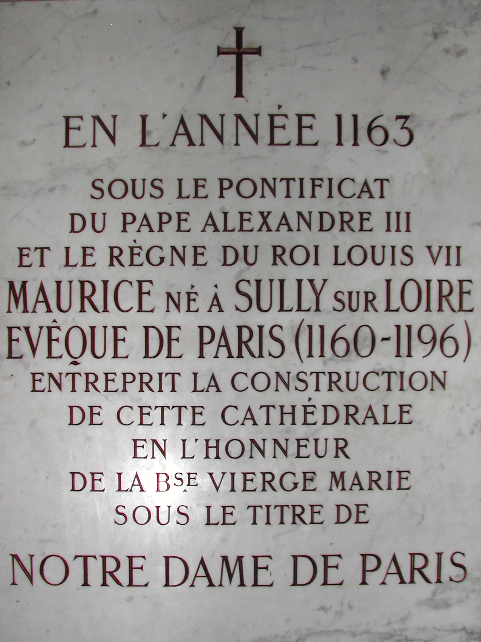 Info about Notre Dame